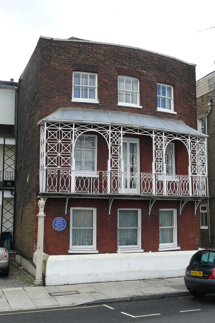 House on The Terrace, Barnes Gustav Holst lived here 1908-13.